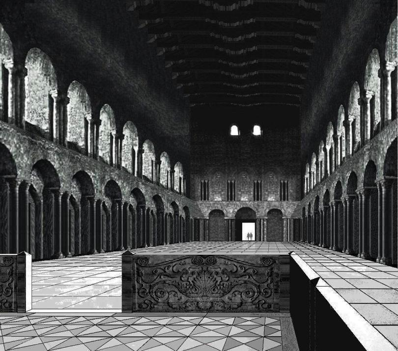 fantastic reconstruction of Saint Pierre, Vienne France